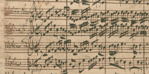 Excerpt from Johann Sebastian Bach's Brandenburg Concerto no. 1 in F major.